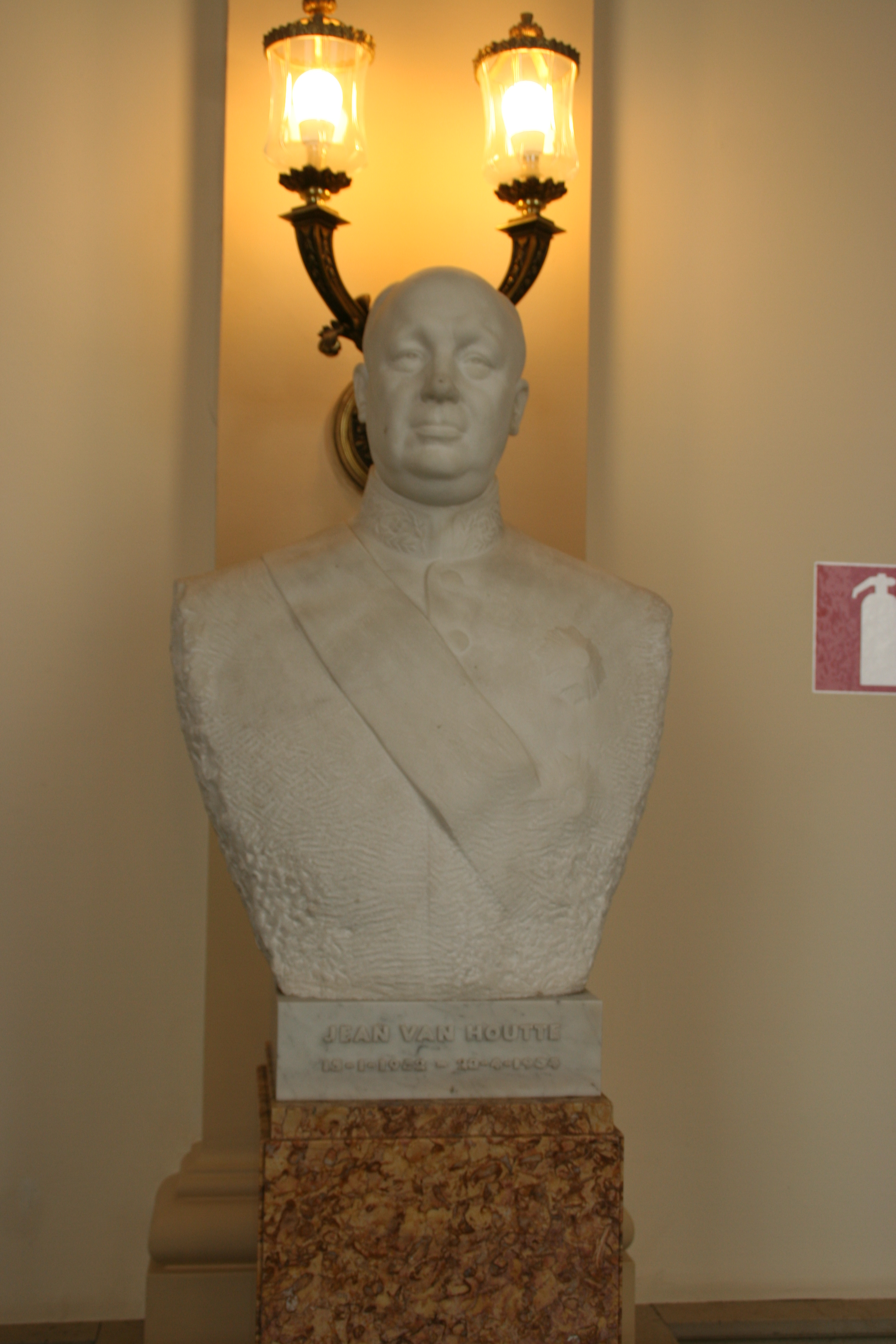 Bust of Jean Van Houtte in the Palais de la Nation in Brussels, Belgium.